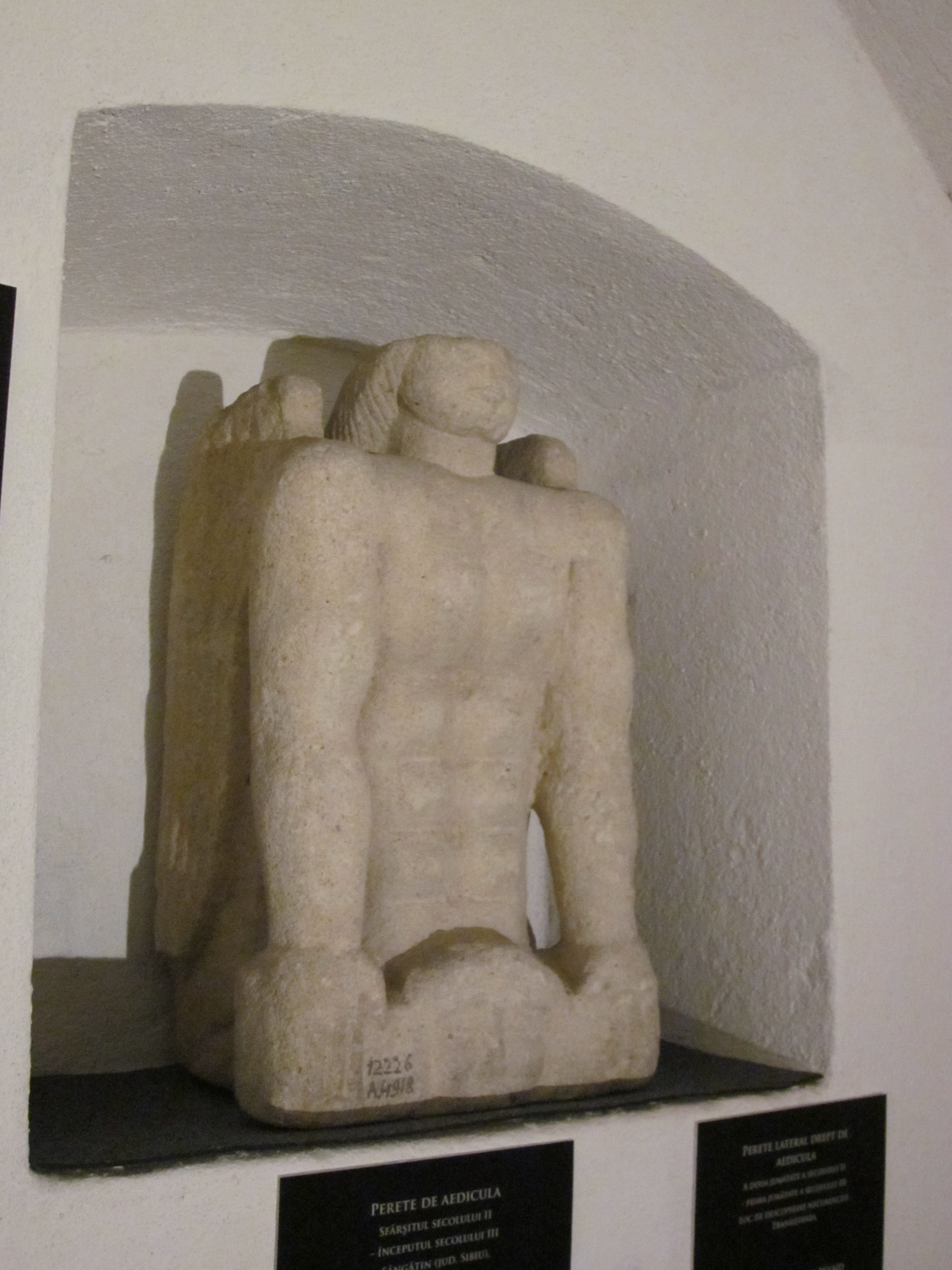 The Roman Sphinx in Dacia Romana 2nd century AD.